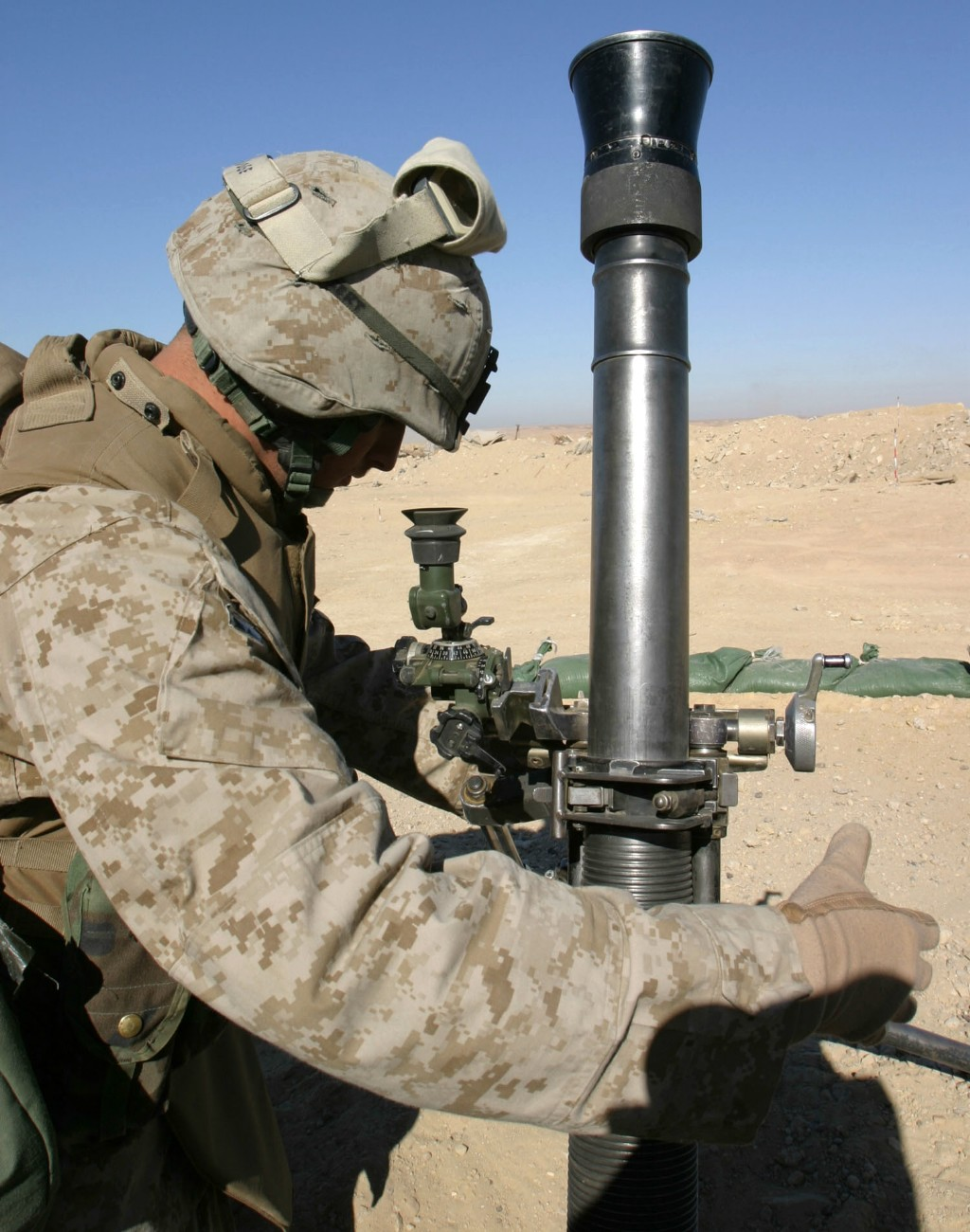 81mm mortar platoon, Battalion Landing Team 1st Bn., 2nd Marines, 22nd MEU Forward Operating Base Hit, Al Anbar province, Iraq, 01-JAN-2006